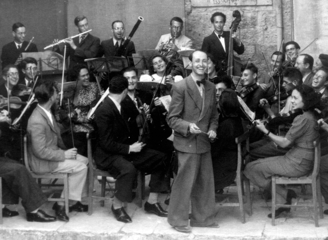 Josef Tal (center) with the Palestine Conservatoire of Music Orchestra. Photo taken in Jerusalem (1939)